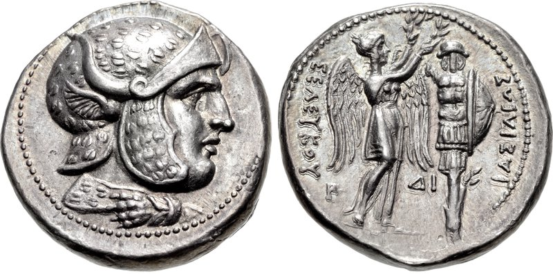 SELEUKID KINGS of SYRIA. Seleukos I Nikator. 312-281 BC. AR Tetradrachm (26mm, 17.07 g, 2h). Susa mint. Struck circa 305/4-295 BC. Head of hero (Alexander or Seleukos?) right, wearing helmet covered with panther skin and adorned with the ear and horns of a bull / BAΣIΛEΩΣ ΣEΛEYKOY, Nike standing right, holding in both hands a wreath that she places on trophy to right; EP monogram to lower left, ΔI in lower middle field. SC 173.11; ESMS Tr.54 (A40/P6); ESM 413; HGC 9, 20; Sunrise 174 corr. (monogram; this coin). EF, toned, great metal. Among the finest. From the Sunrise Collection.